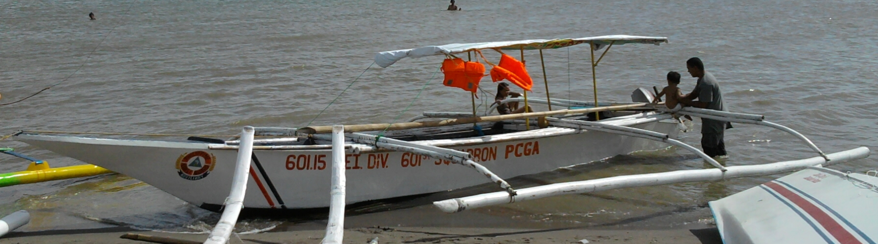 Pump boat of the Philippine Coast Guard Auxiliary Iloilo City at the 2013 Paraw Regatta, Villa Beach, Villa de Arevalo, Iloilo City